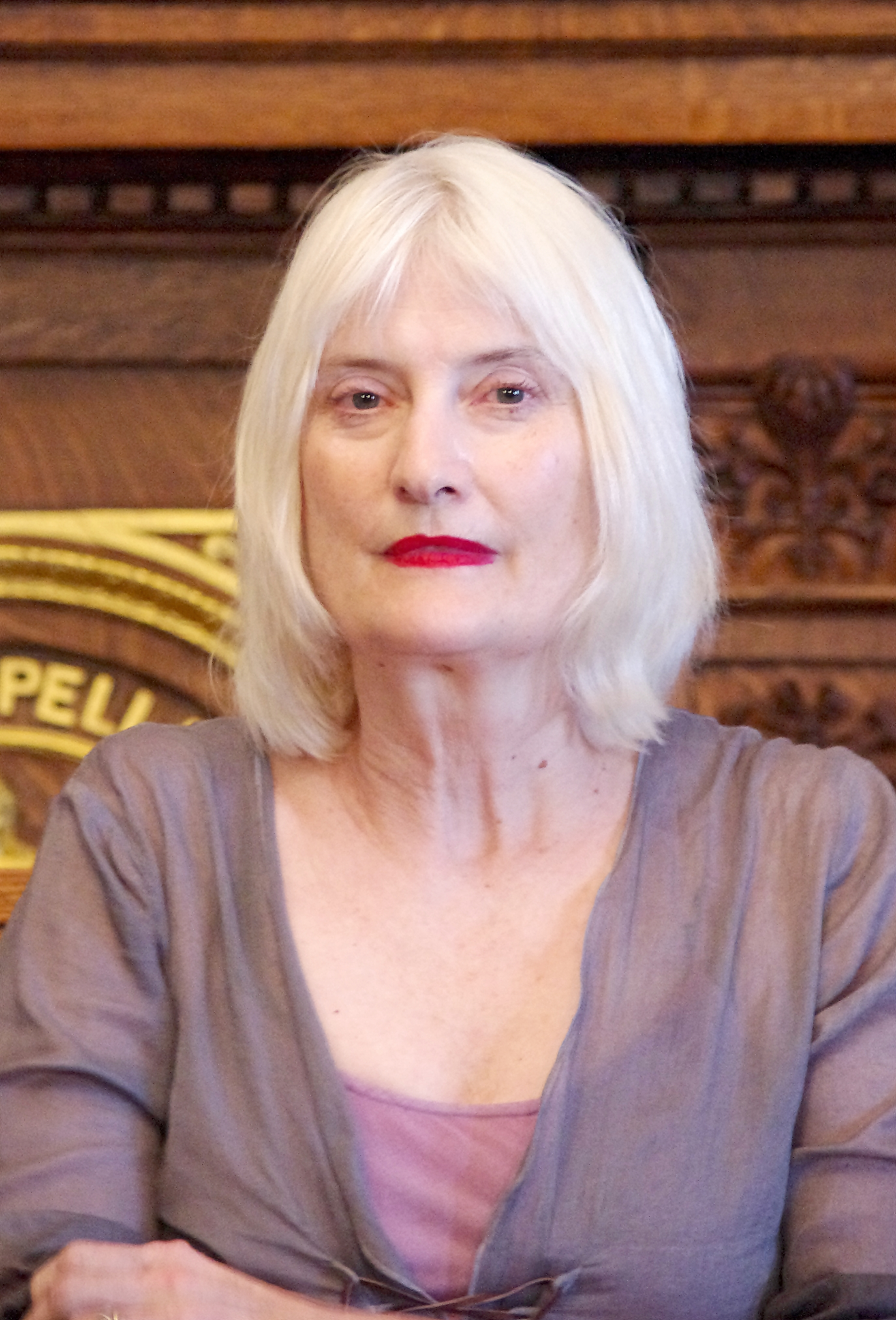 Terese Svoboda at the 2011 Brooklyn Book Festival.